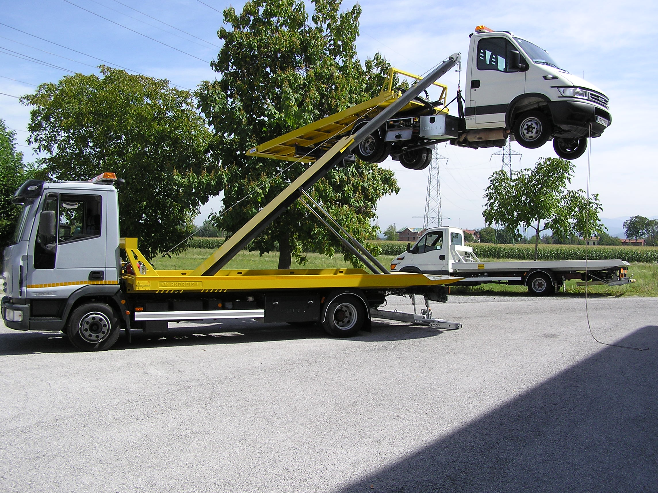 Tow truck involved in the early stages of loading tests before leaving the factory